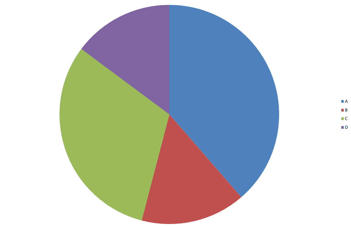 A pie chart.